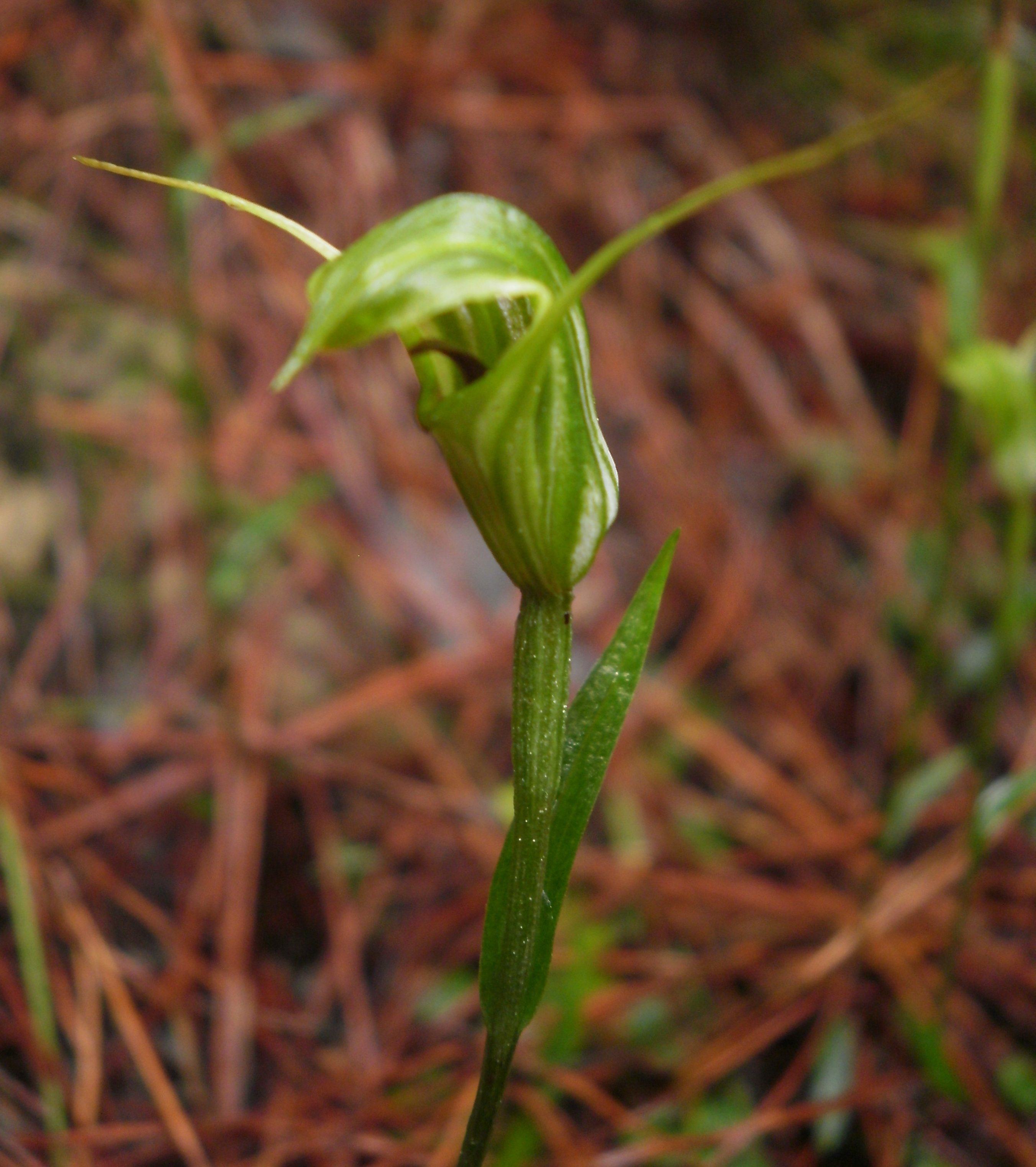 Pterostylis trullifolia, trowel leaved greenhood orhid, Wi Tako Reserve, Upper Hutt, New Zealand.